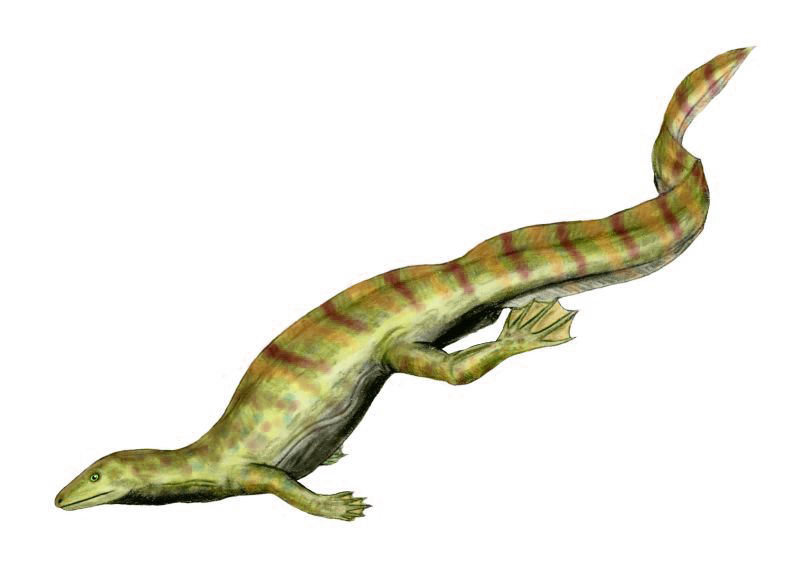 Hovasaurus boulei, a tangasaurid diapsid reptile from the Late Permian of Madagascar, pencil drawing